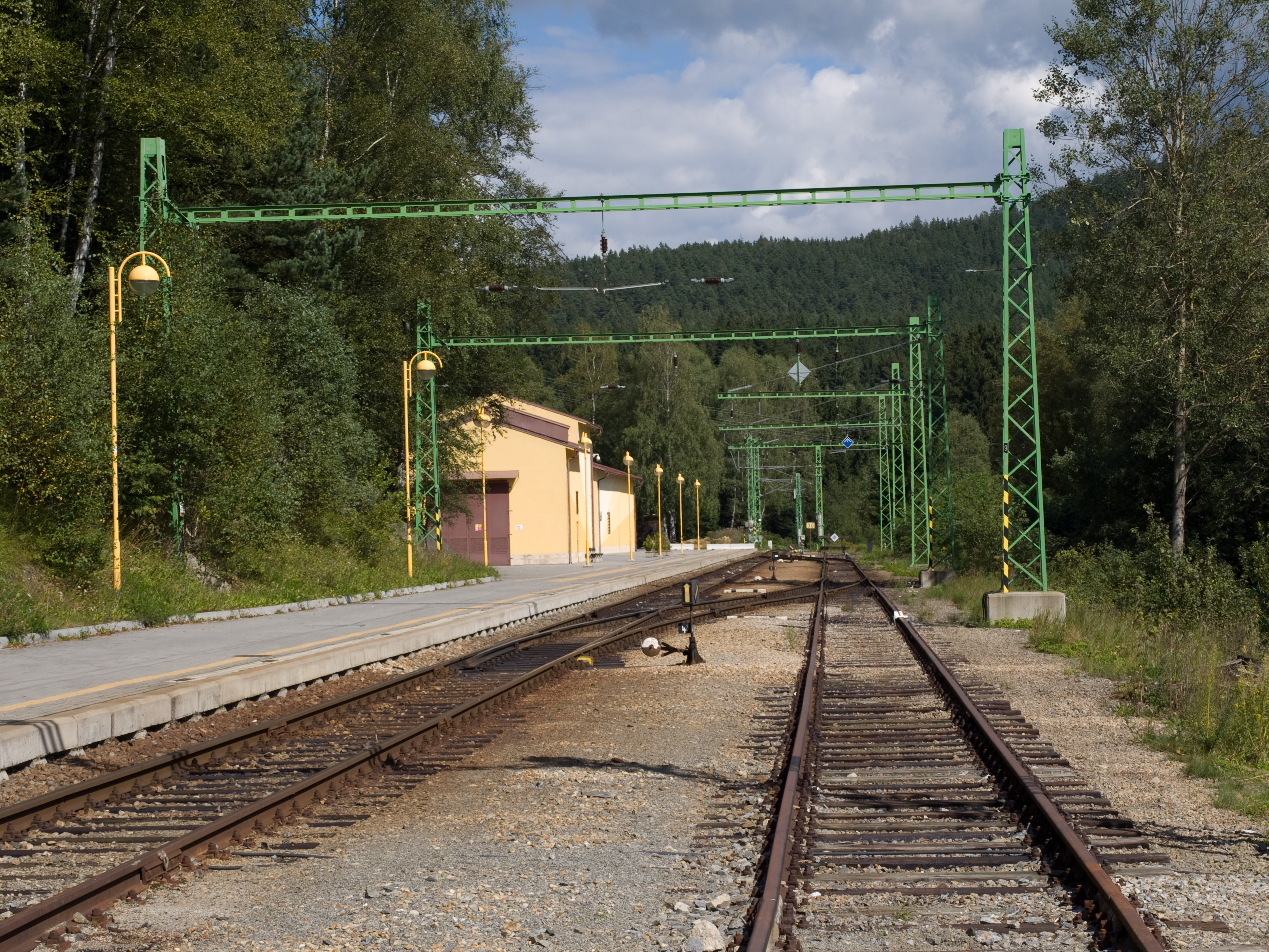 Train station, Lipno nad Vltavou